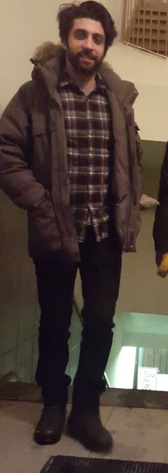 Adam Basanta photographed in Montreal, Quebec, Canada .